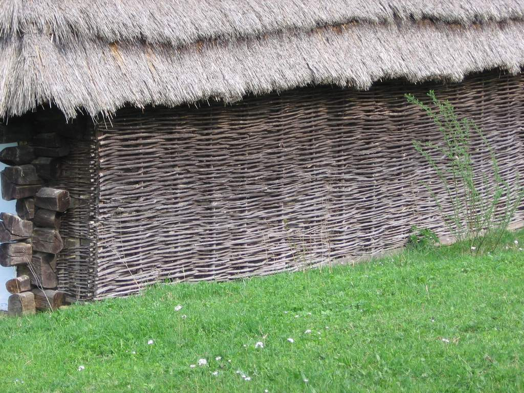 Fence for holding wood by the wall of a house in Svidnik skansen.